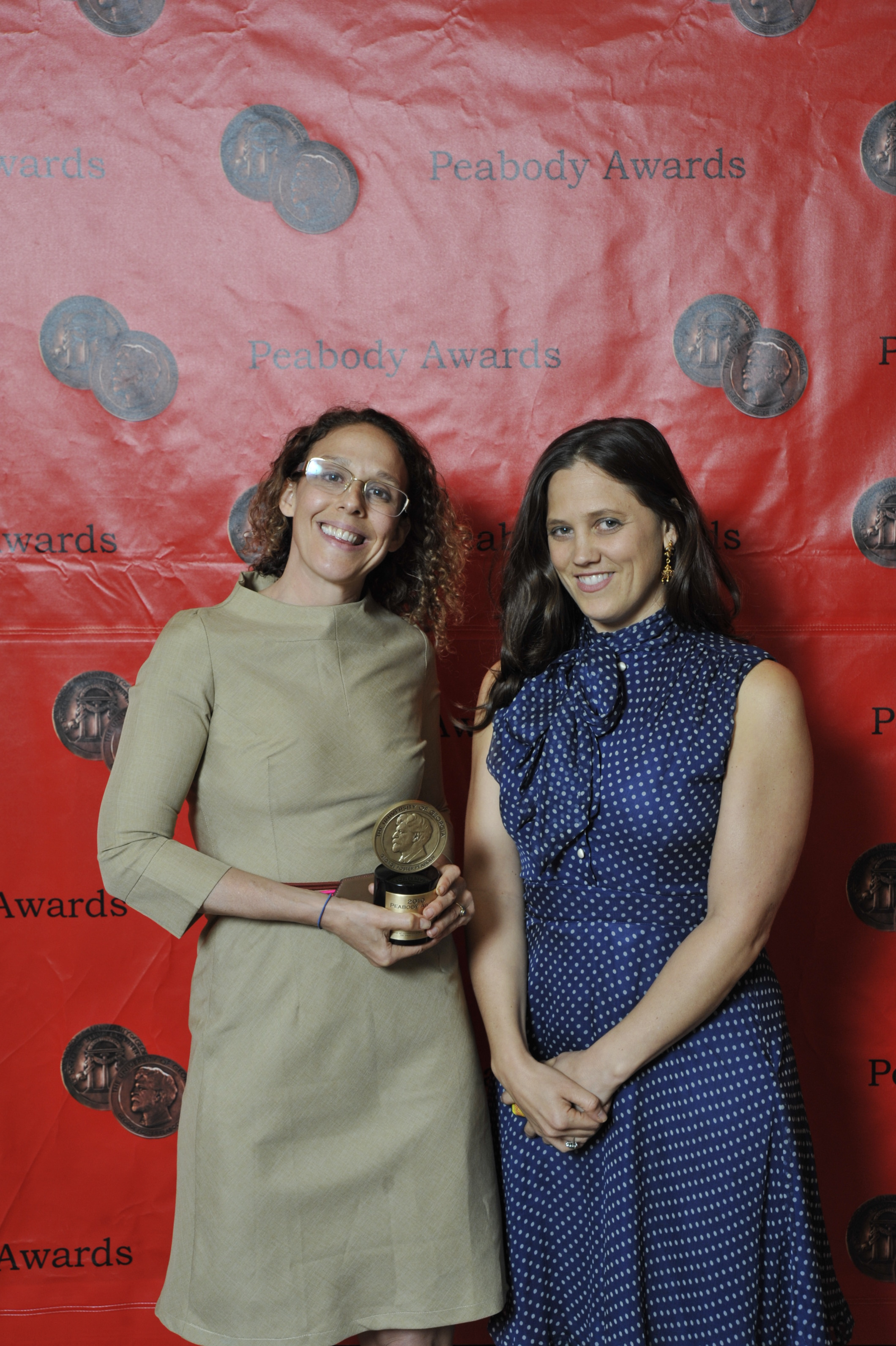 PHOTO CREDIT: ANDERS KRUSBERG / PEABODY AWARDS Rachel Grady and Heidi Ewing with the award for 12th & Delaware 70th Annual Peabody Awards Luncheon Waldorf=Astoria Hotel May 23, 2011